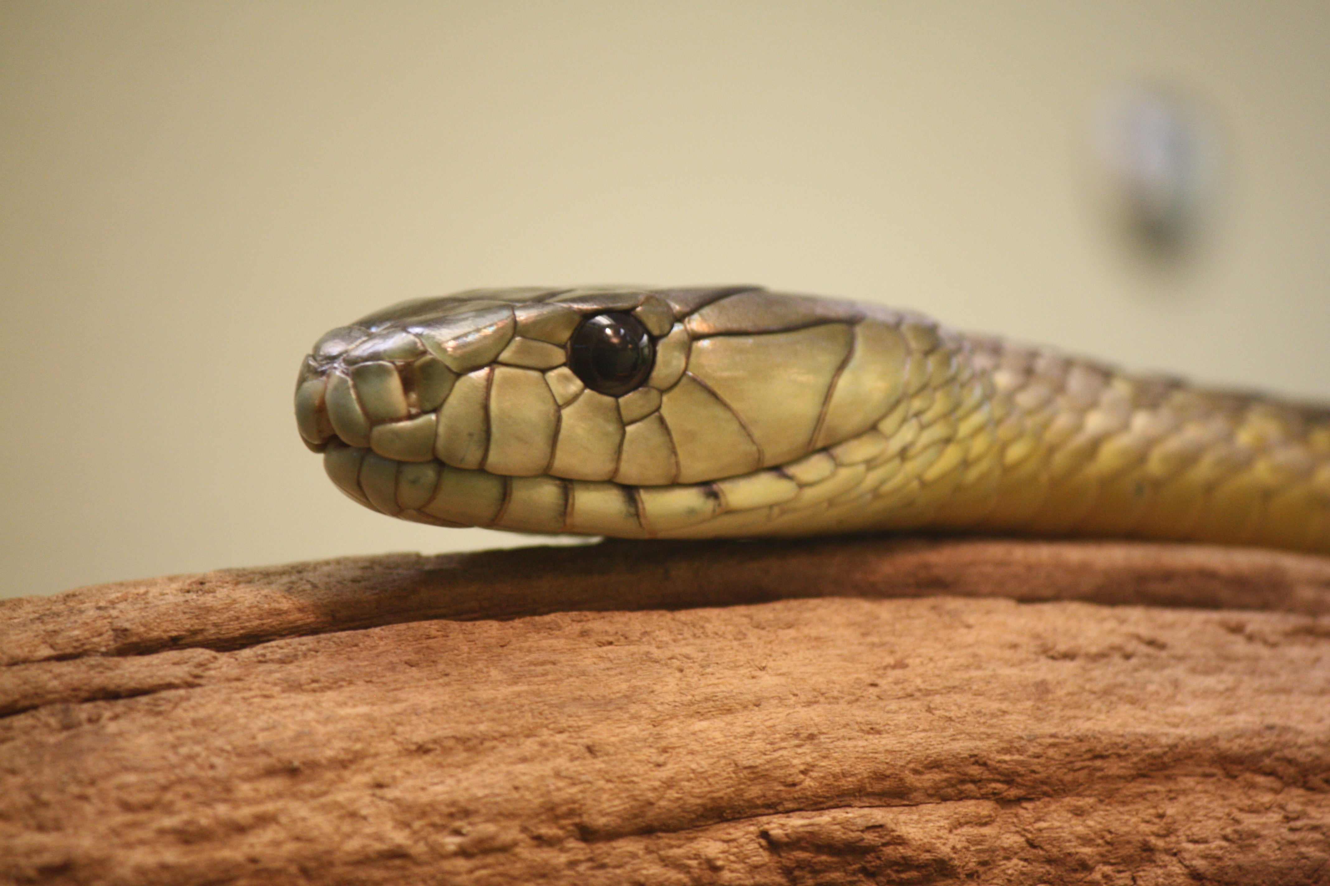 Jamesons Mamba Dendroaspis jamesoni at Cincinnati Zoo